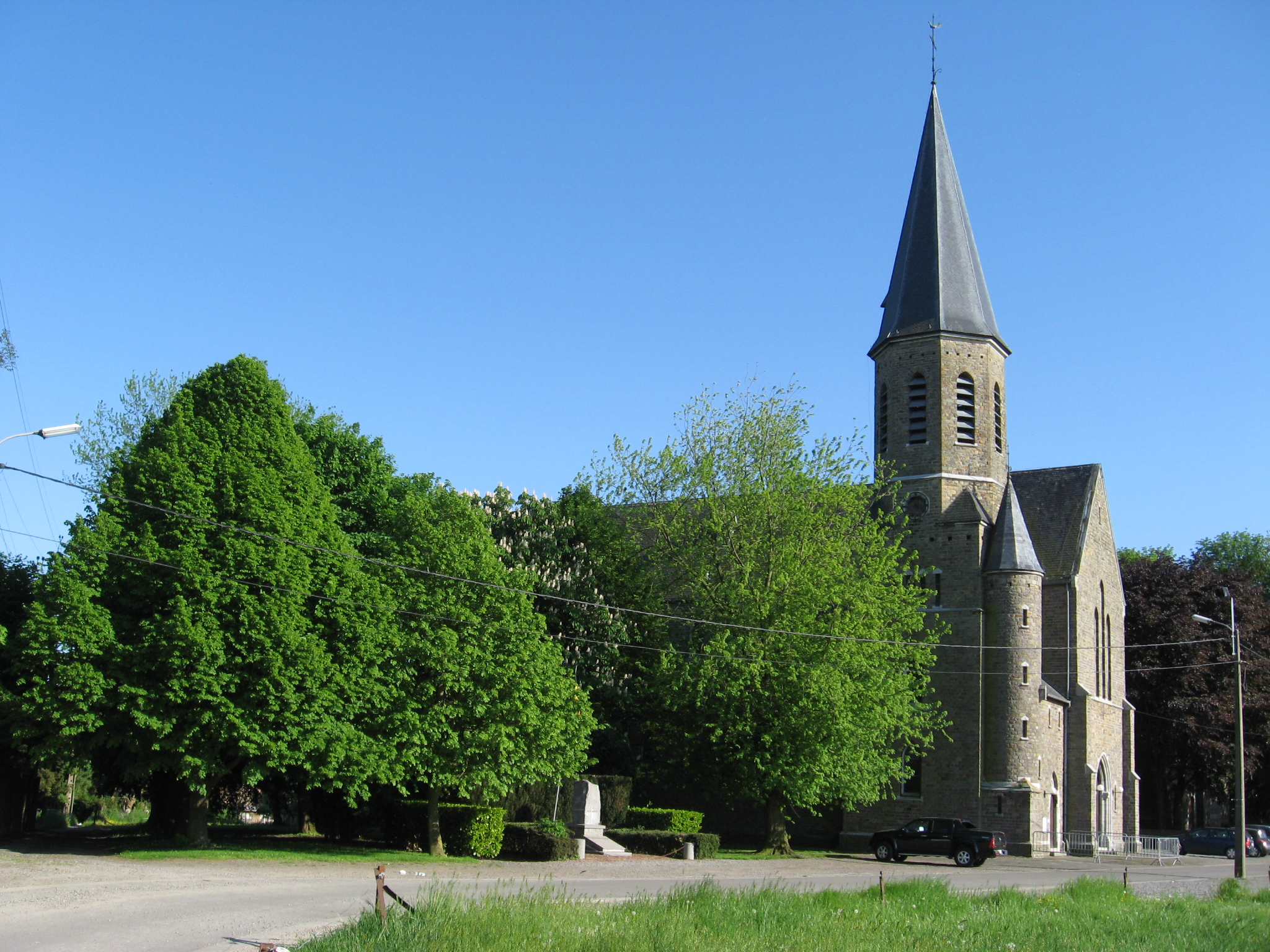 Church of Saint Stephen in Avin, Hannut, Liège, Belgium